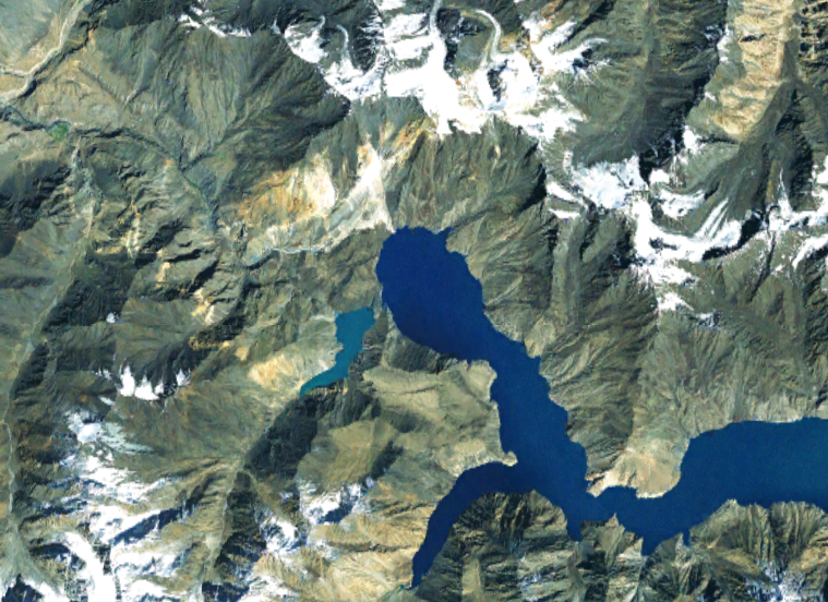 Satellite image of the Usoi natural dam, the tallest dam in the world, holding back the larger Lake Sarez and the smaller Lake Shadau from a screenshot from Nasa WorldWind software